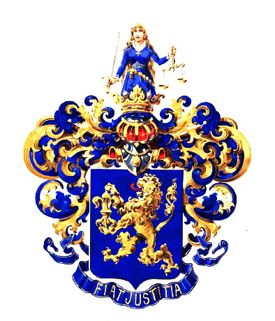 Coat of arms of the family Shneider